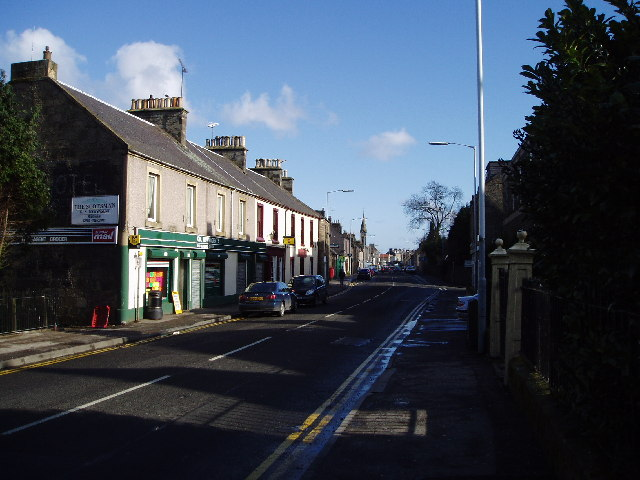 Leslie, Fife. View along the main street of this town which is separated from the New Town of Glenrothes by the river Leven. The church spire in the sistance marks the eastern edge of this grid square.